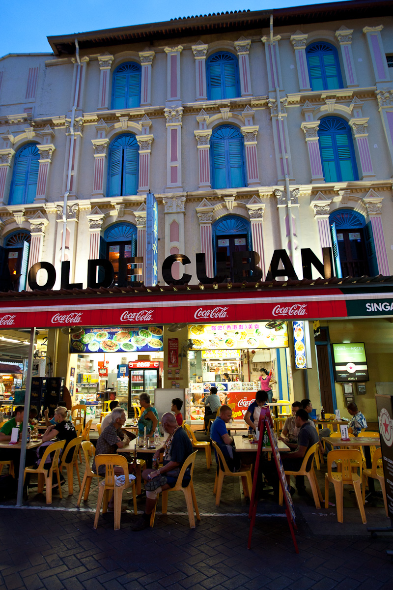 The Olde Cuban restaurant at 2 Trengganu Street in Chinatown, Singapore.